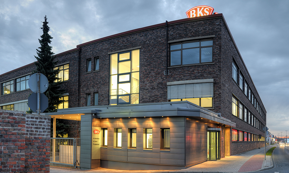 BKS corporate seat in Velbert